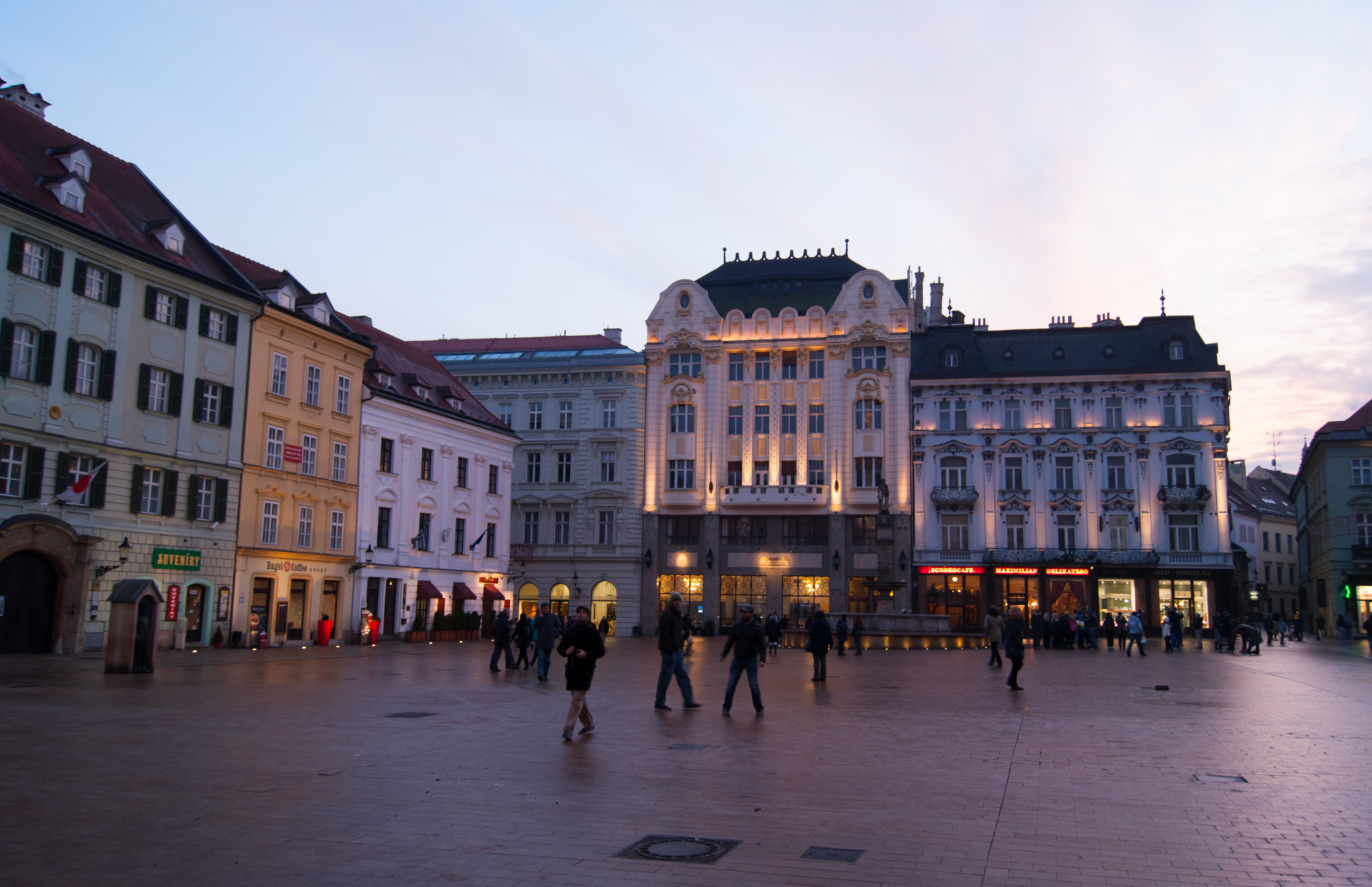 Main square of Bratislava